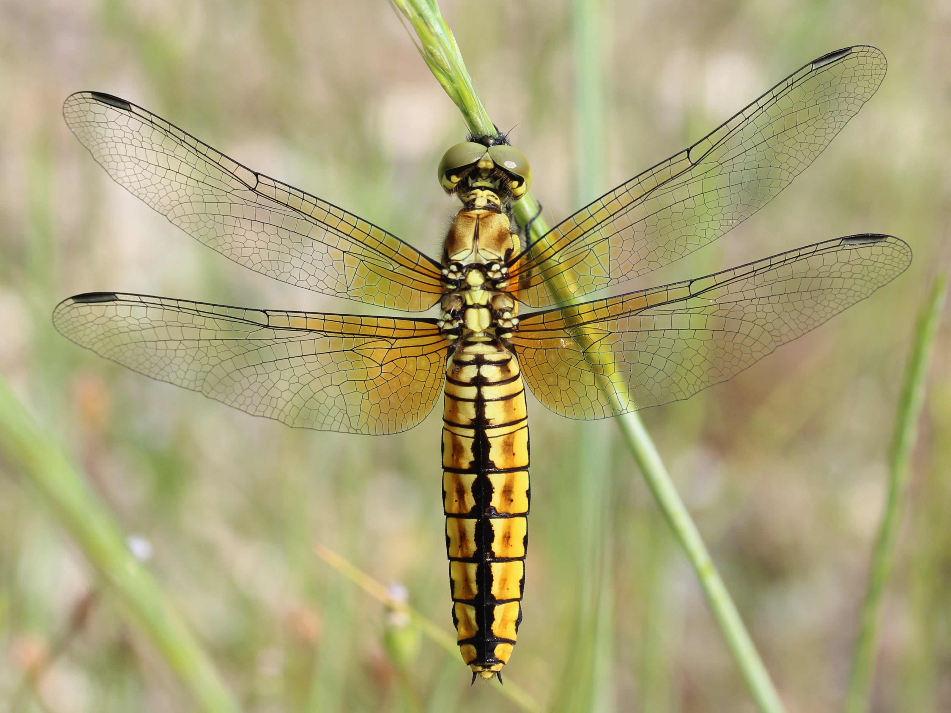 Lyriothemis pachygastra, female in Japan.